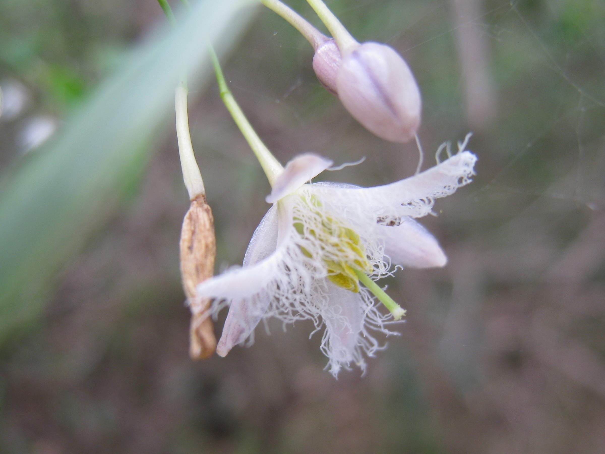 Tiny flower on Wombat Berry (Eustrephus latifolius). Paruna Reserve, Como NSW Australia, December 2010.